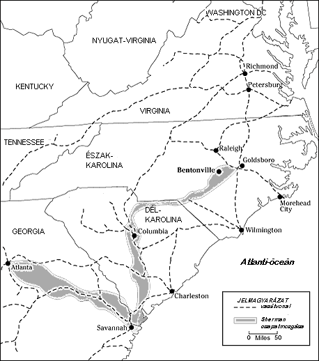 Map of Gen. William T. Sherman's march through Georgia and the Carolinas during the American Civil War.